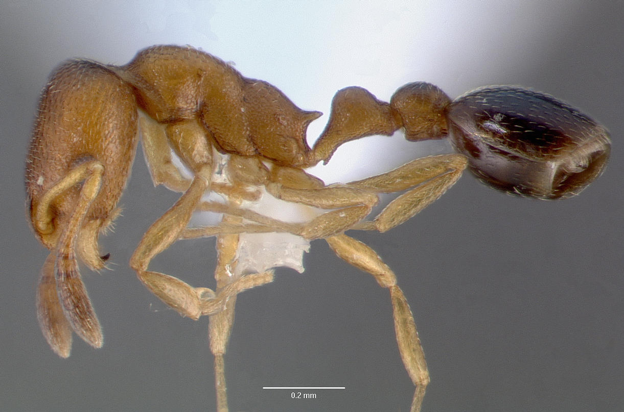 Profile view of ant Cardiocondyla emeryi specimen casent0005964.